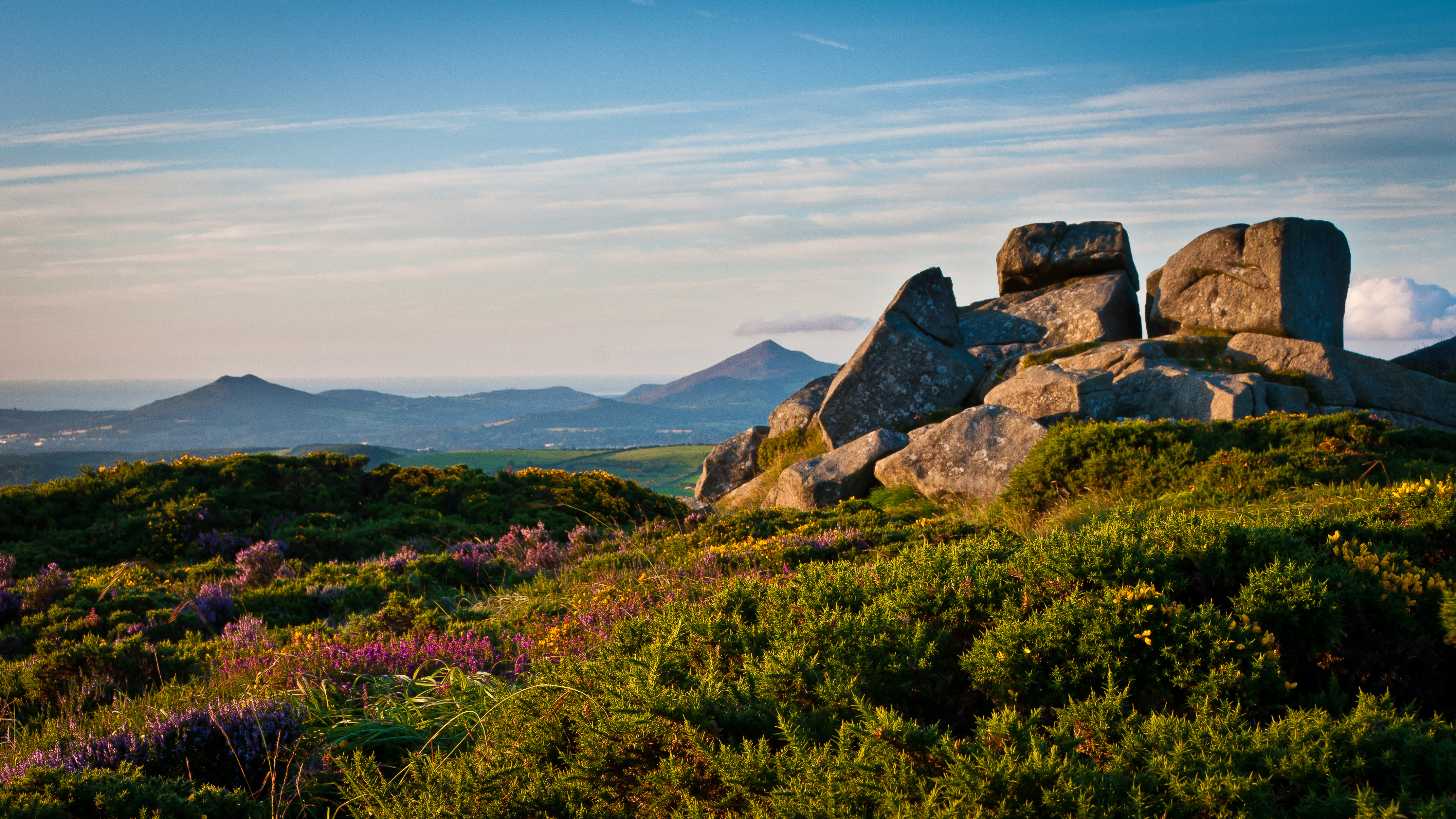 View from the southernmost tor on the summit of Three Rock Mountain, Dublin, Ireland looking towards Bray Head, the Little Sugar Loaf and the Great Sugar Loaf